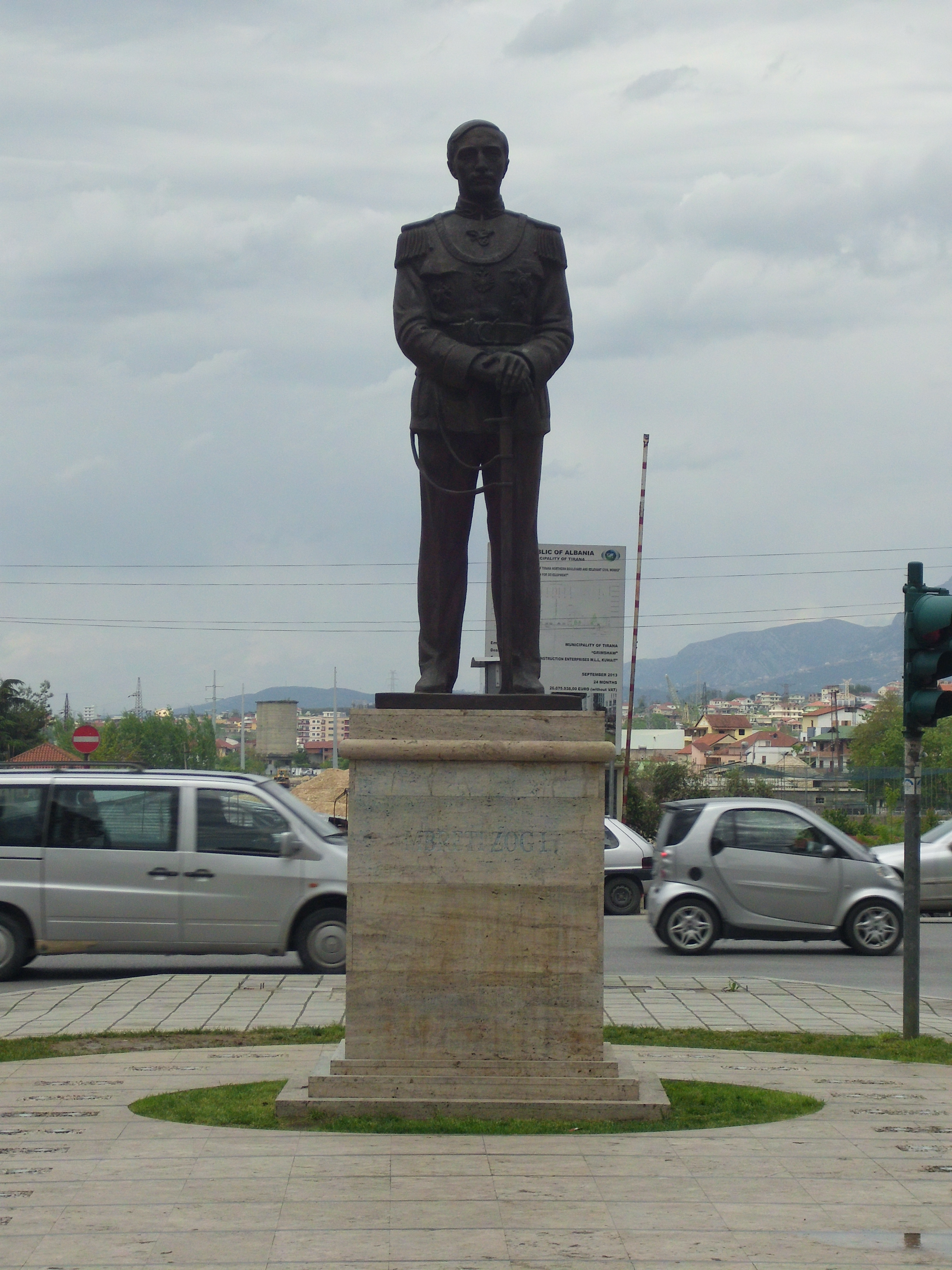 Statue of Zog I of Albania (Mbreti Zog), leader of Albania from 1925 to 1939 as president, king and prime minister. The monument is located in front of the former train station.